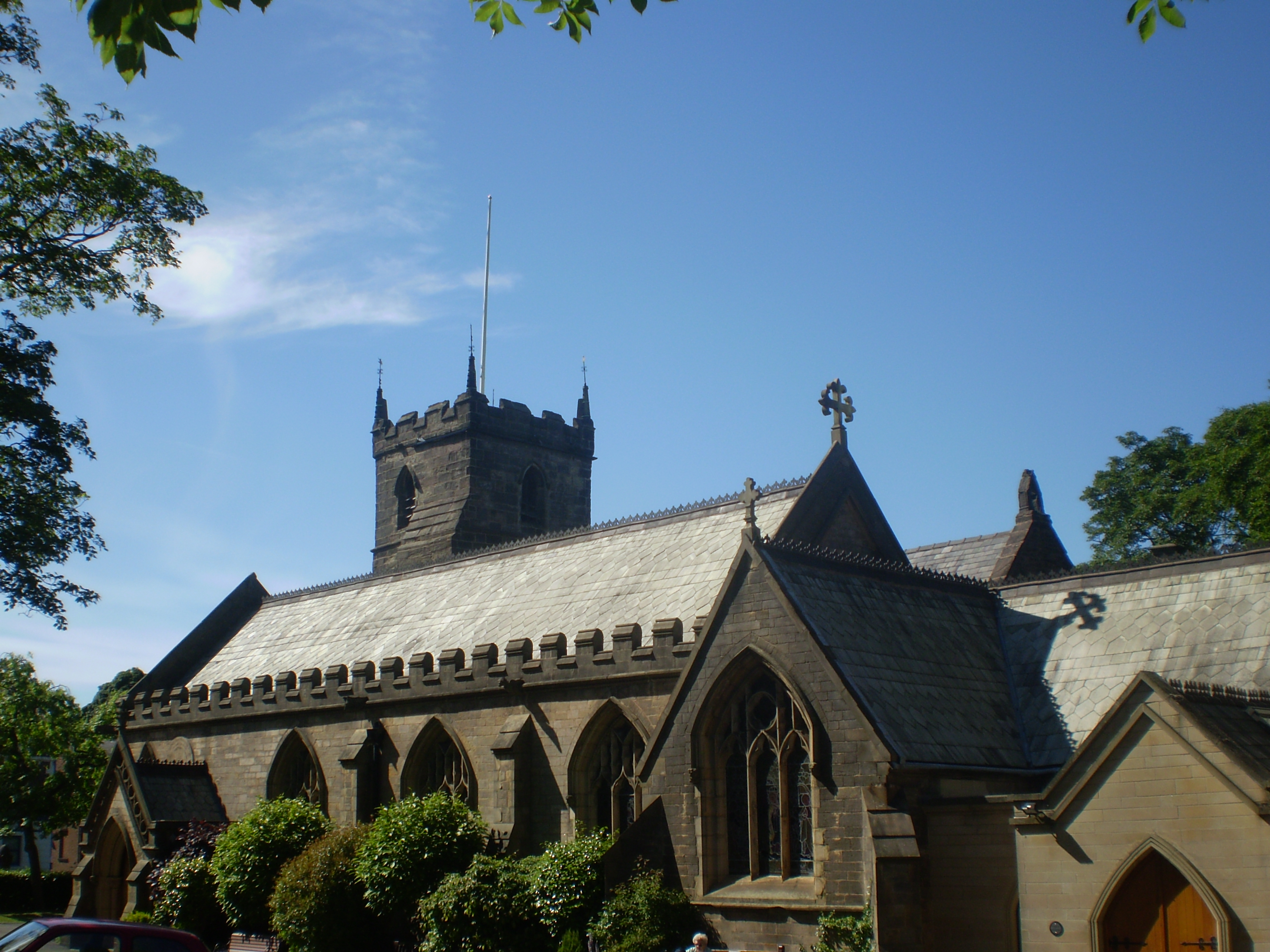 St Laurence's Church, Chorley, Lancashire, seen from the southeast